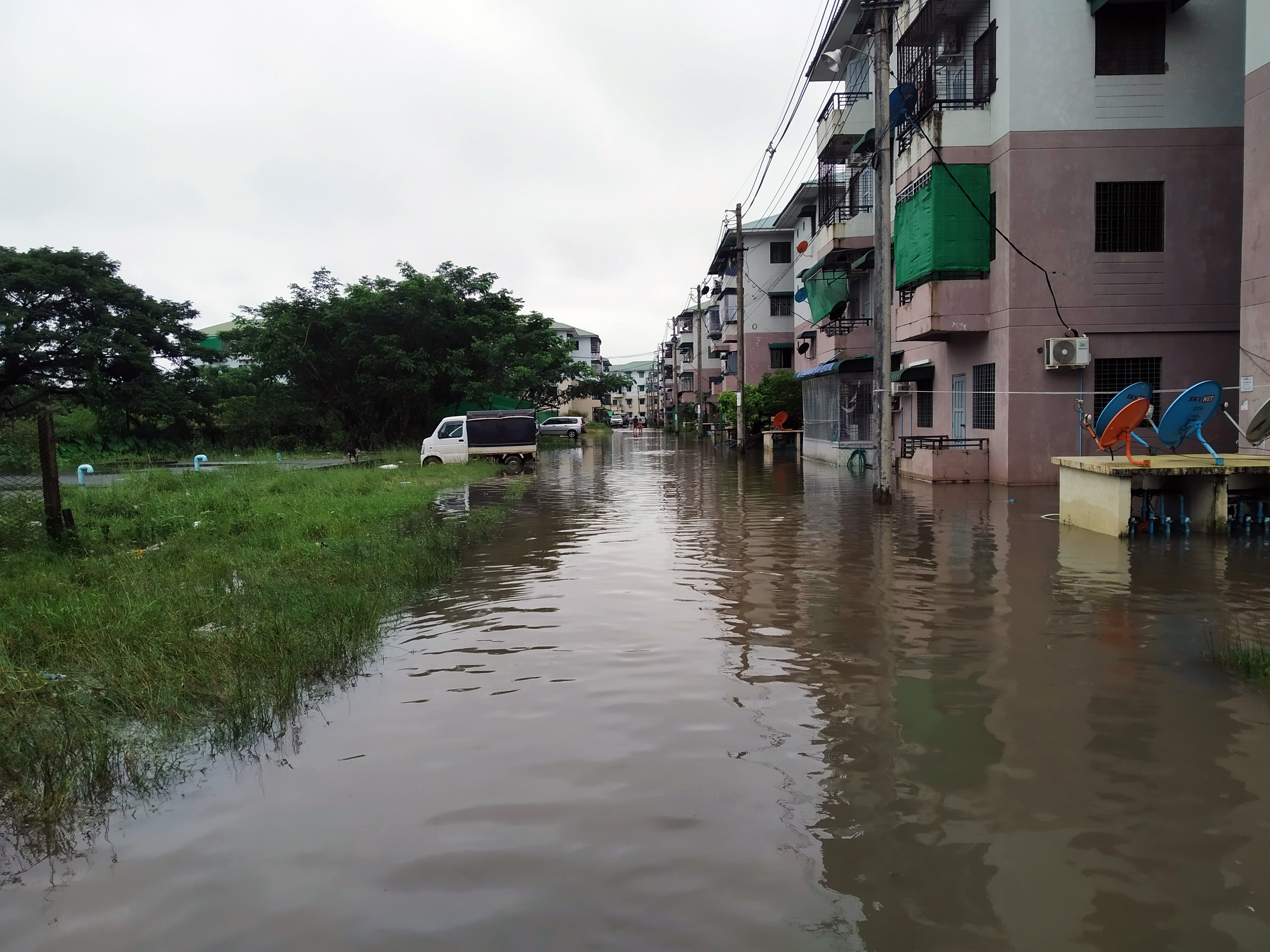 ThiriMingalar Apartments, one day after August 2019 flood